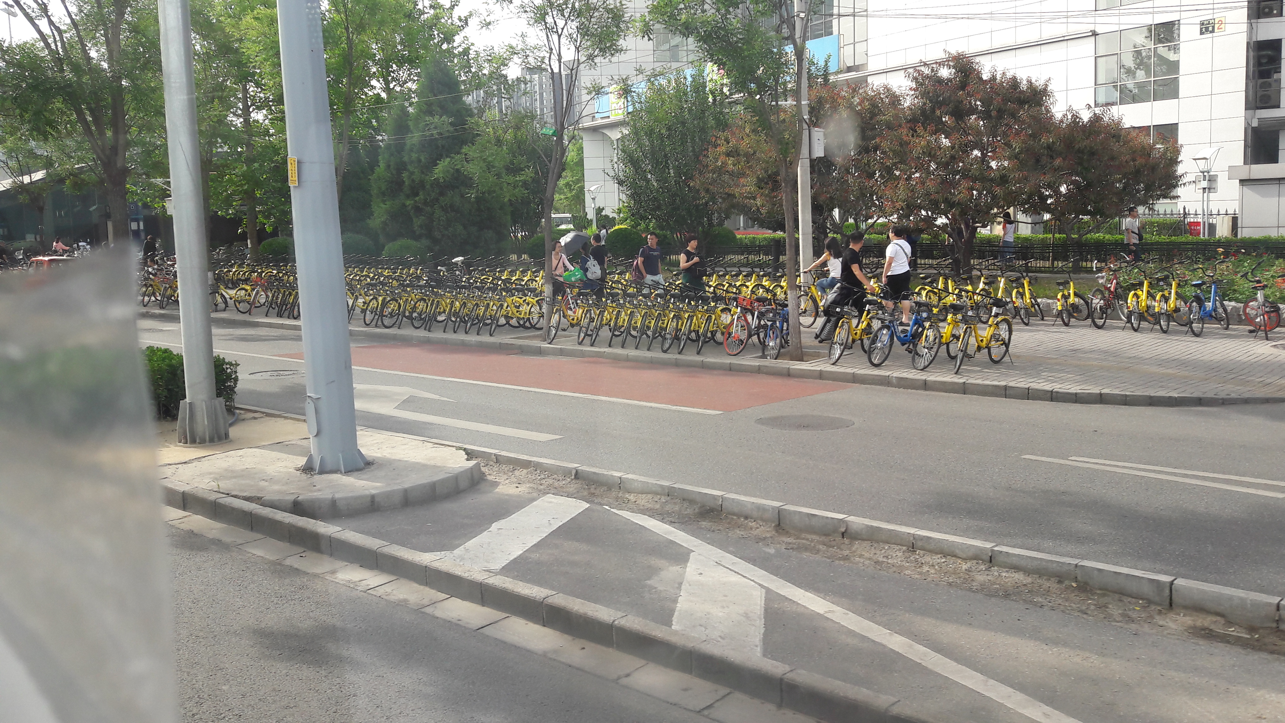 Self-servive bike station in Beijing, there are tens of thousands of those bikes, by at least 4 companies in at least Bejing, Tianjin and Nanchang, at the begining of June, 2017. They have a QRcode that can be scanned by mobile phone to unlock them, they cost 50 cents of yuan for half an hour. There is only a lock on the bike itself, they can be left everywhere, so anyone can rent it again. This seems to be a great success, seeing the number of bike and users in those cities. Those programs started in june, 2017 after local people I asked for, in those few cities.